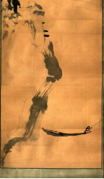 Japanese Zen Landcape Painting. Scroll Size 57" X 14". PAINTING SIZE 41" X 11"